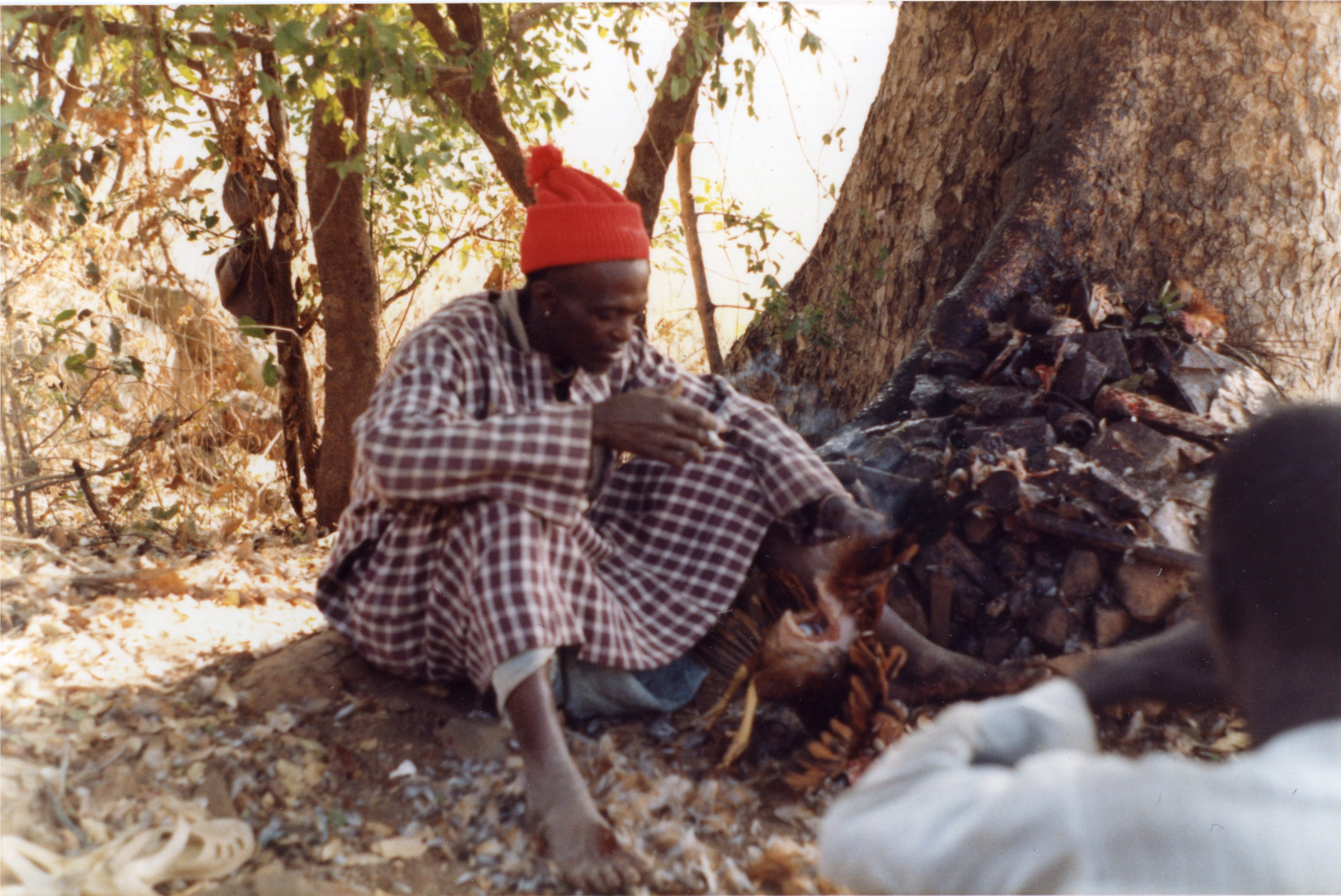 Famous Bedik diviner just outside Iwol, southeast Senegal (West Africa) He predicted outcomes by examining the color of the organs of sacrificed chickens. The person consulting him here came all the way from Dakar --- a long trip